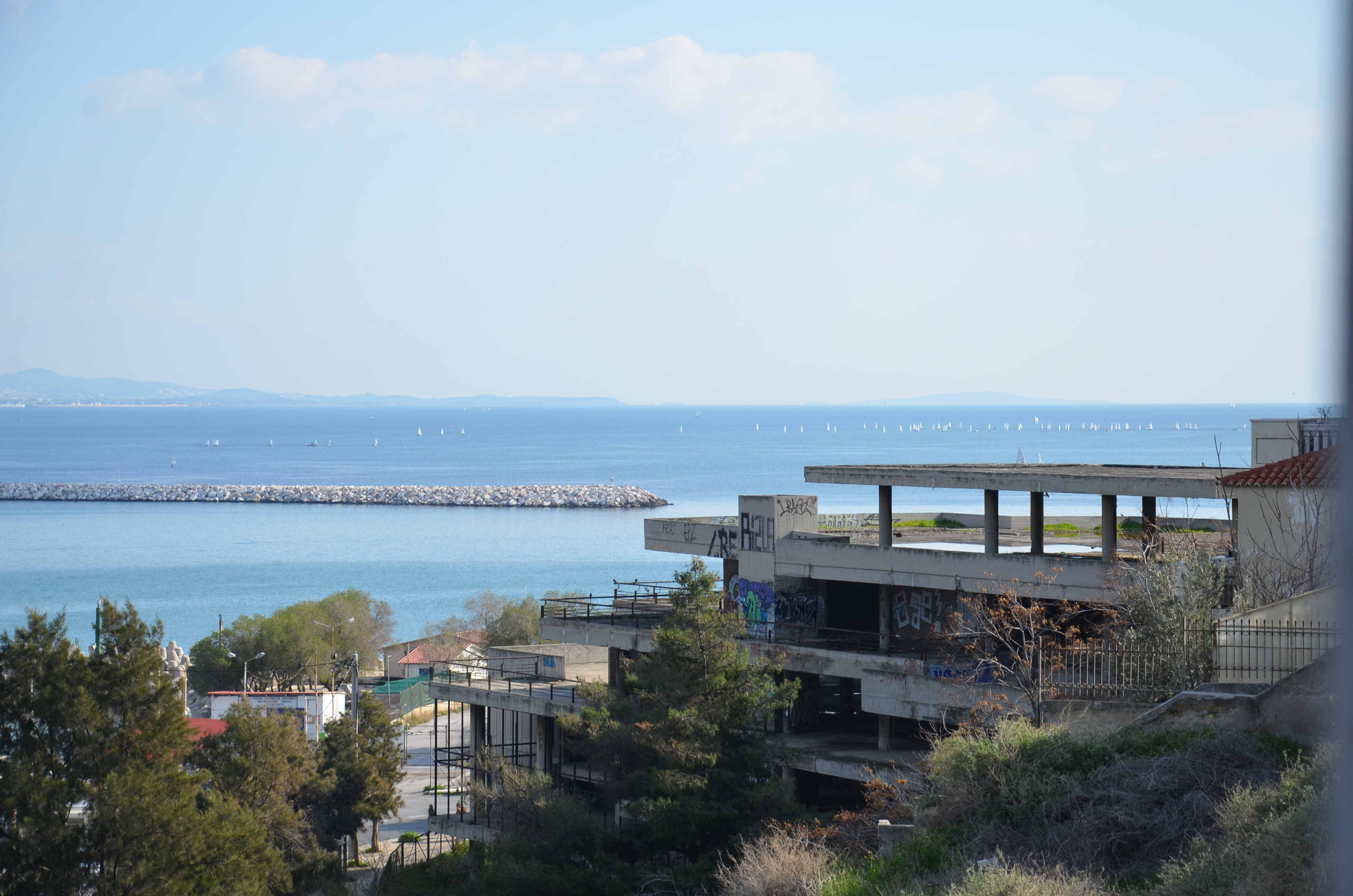 Liapis, Cultural Center